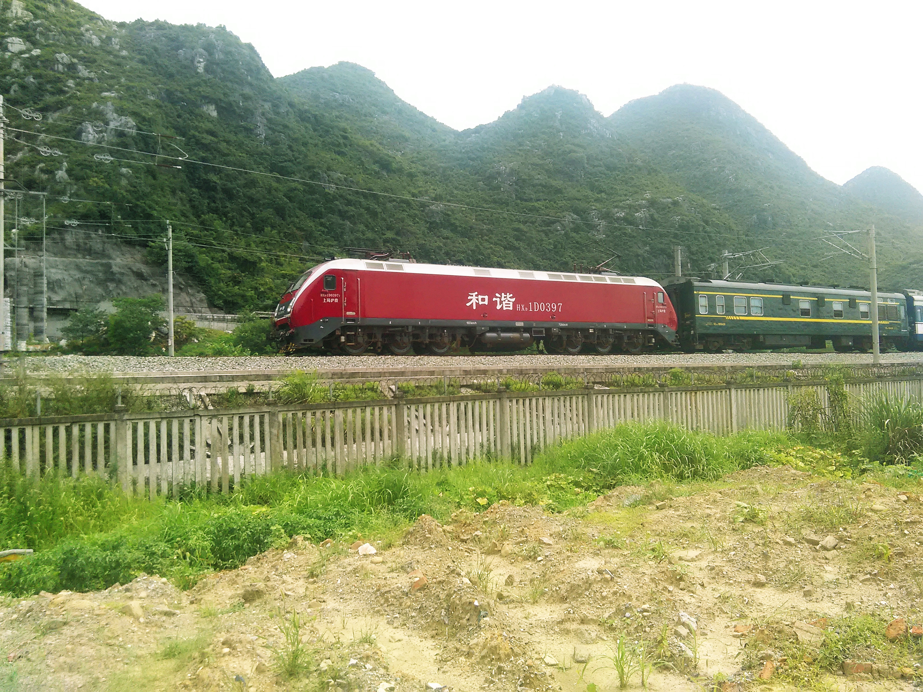 HXD1D-0397 with T382 Train in Lukou Village, Guilin.